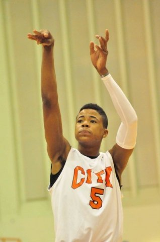 Former City College guard Nick Faust looks on after a shot.